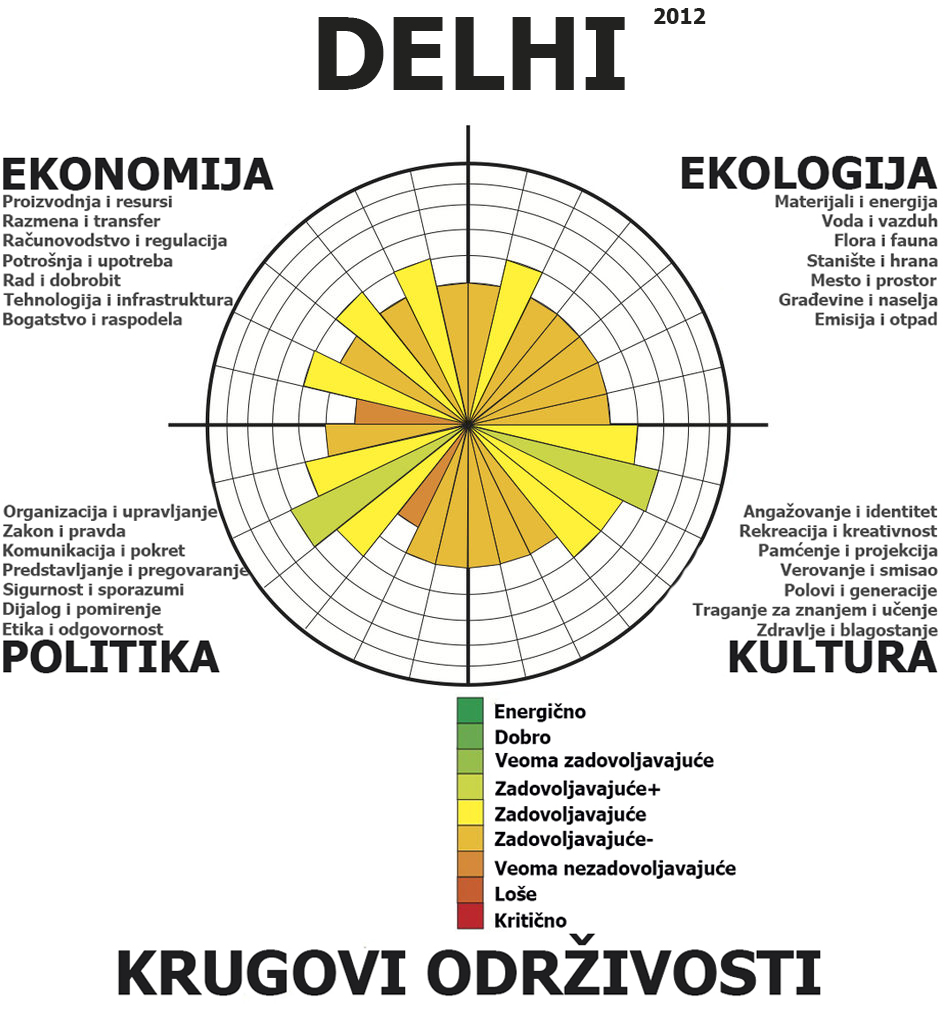 Profil Delhija, nivo 1, 2012.